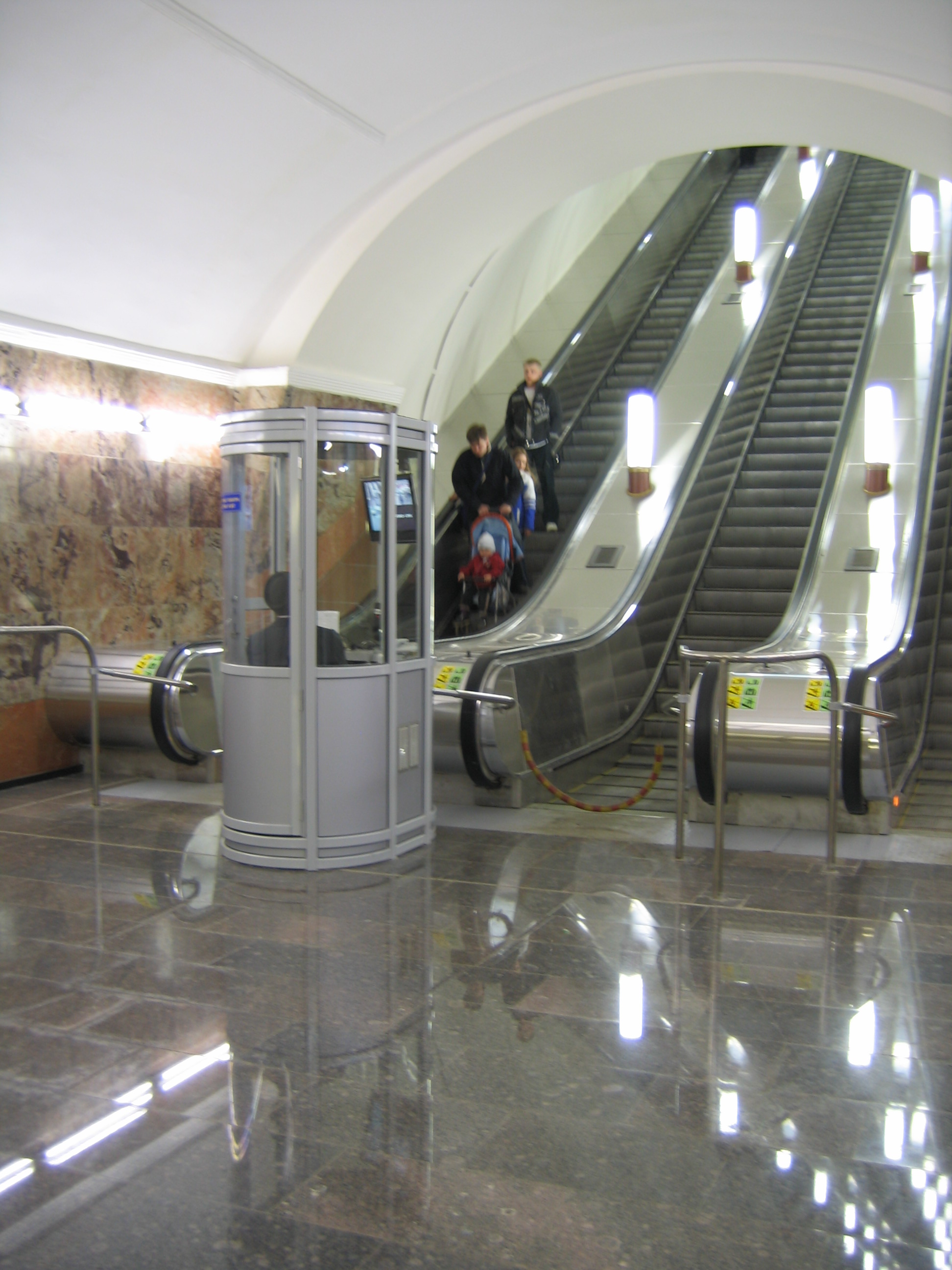 Semyonovskaya station of Moscow Metro